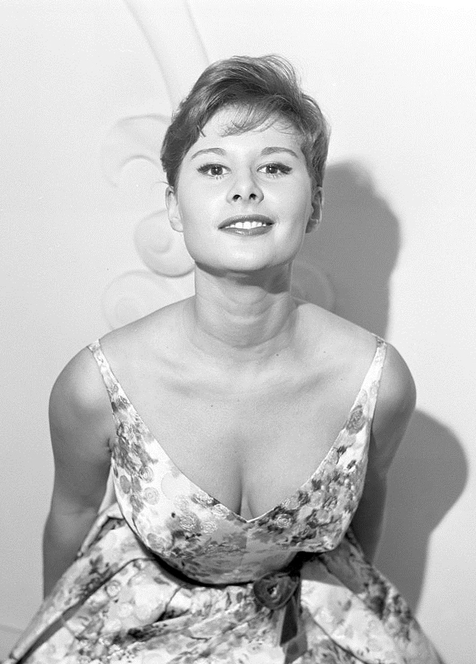 Italian actress Marisa Allasio trying on a dress at Italian tailor Emilio Federico Schubert's atelier. Rome, 1958